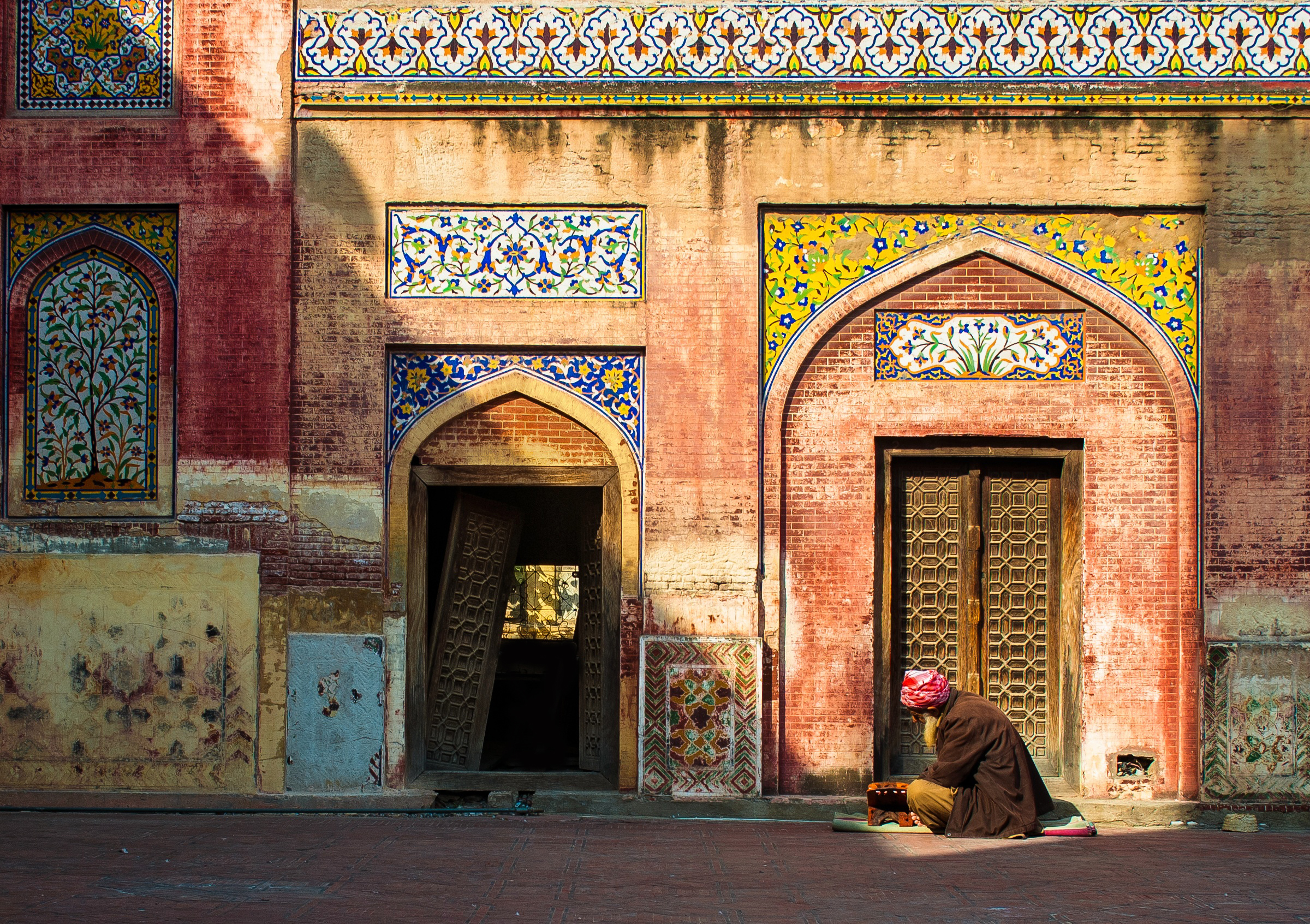 Wazir Khan Mosque This is a photo of a monument in Pakistan identified as the PB-100